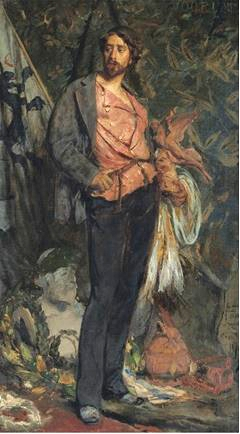 Portrait of the sculptor, Julien Dillens (with his Prix de Rome)